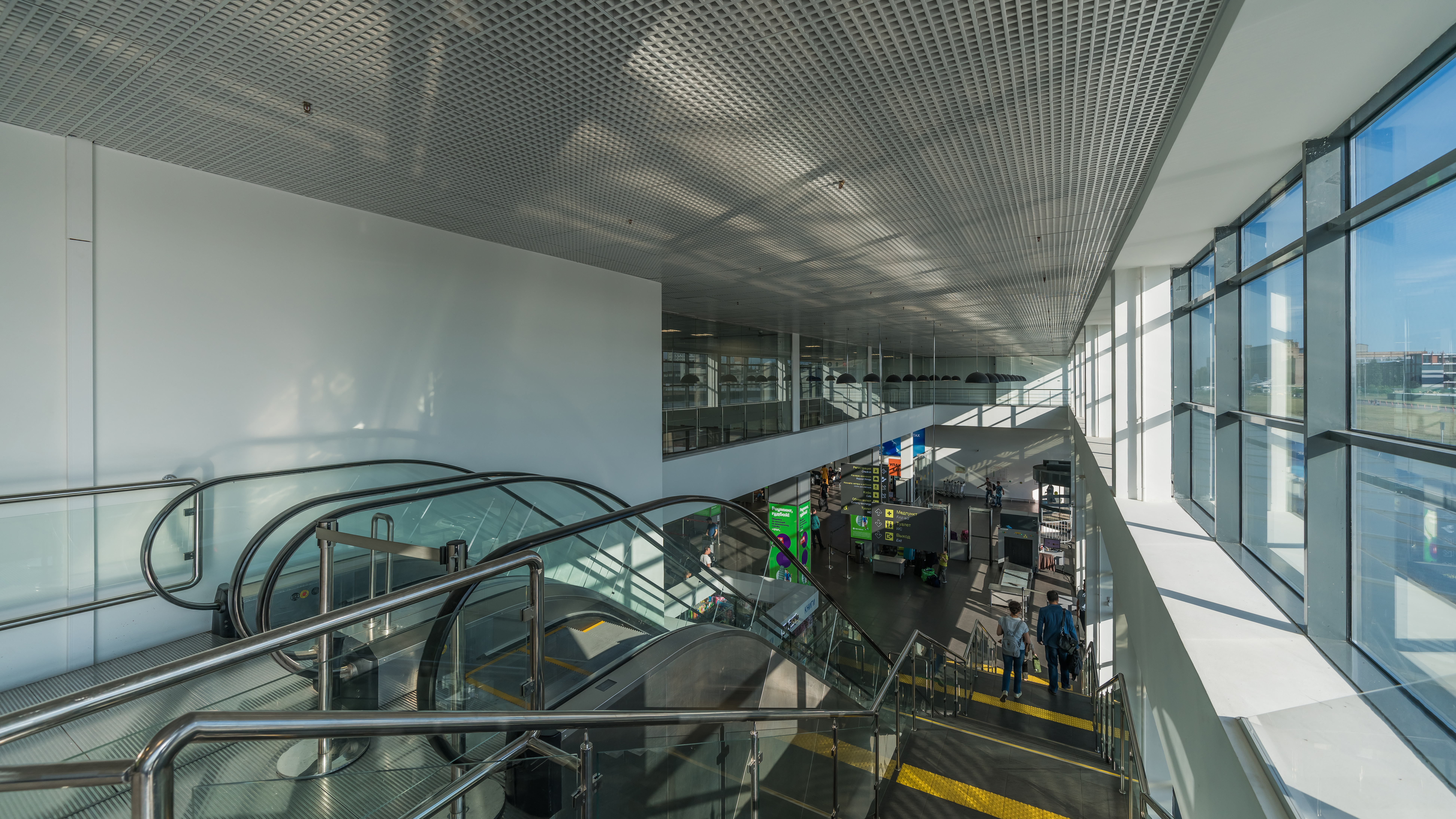 Interior of the terminal of Zhukovsky Int. Airport, Moscow Oblast, Russia